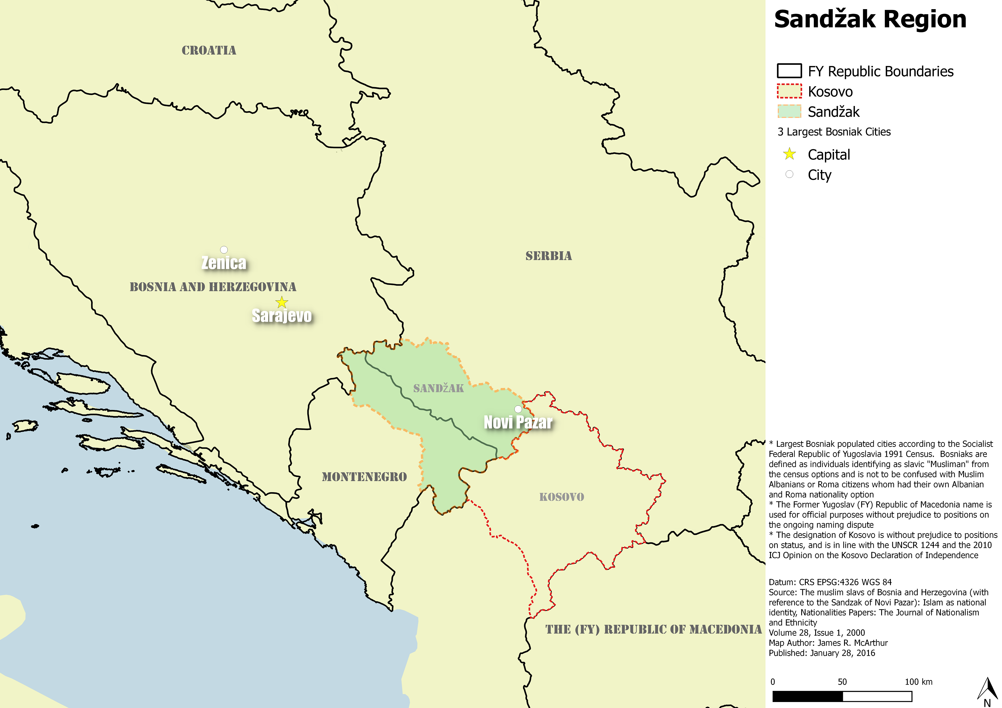 Sandžak region within present day international borders